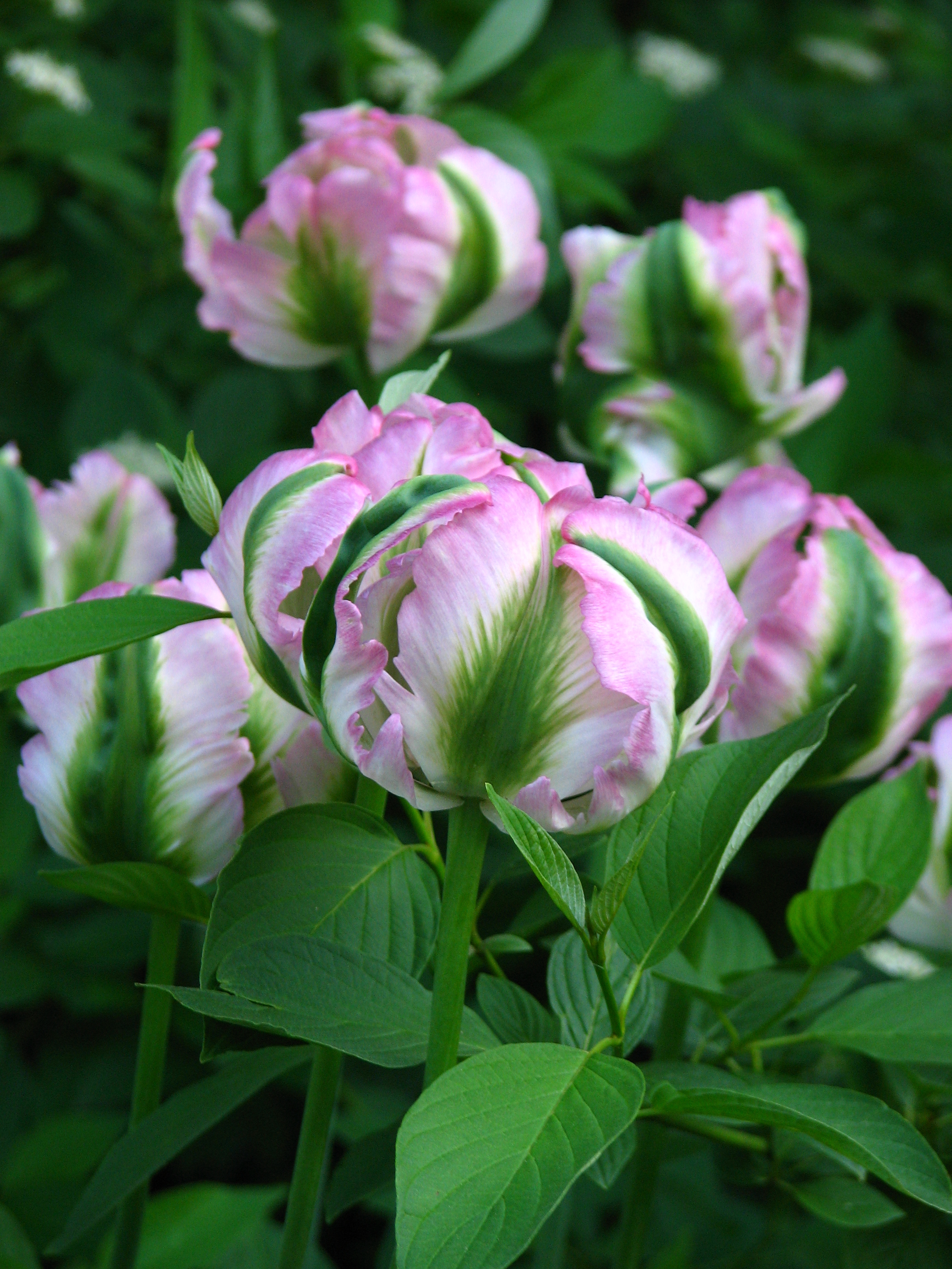 Tulip from the Viridiflora Group (unidentified cultivar) in flower beds in the Botanical Garden of Moscow State University "Aptekarsky Ogorod".